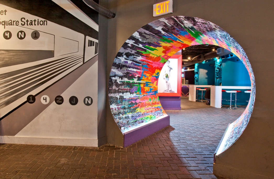 Located in Houston, this bar was designed by Laura U, Inc. Visit for more of her commerical and residential designs and read our blog at